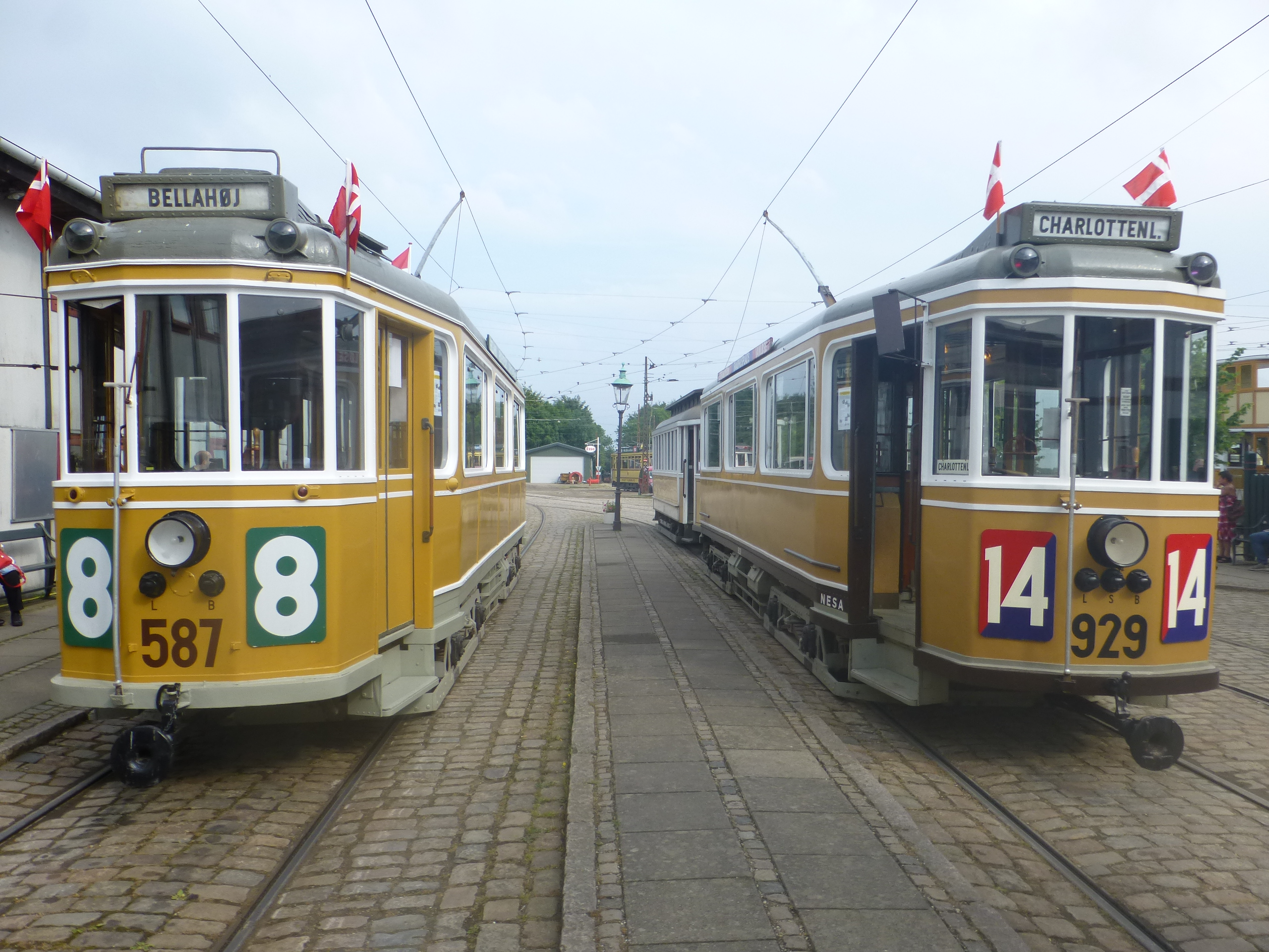 Old trams from Copenhagen, KS 587 and NESA 929, at Sporvejsmuseet Skjoldenæsholm in Denmark.